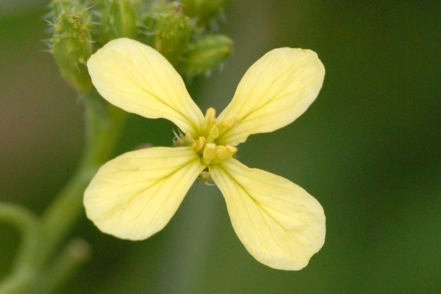 Raphanus raphanistrum from Commanster, Belgian High Ardennes .